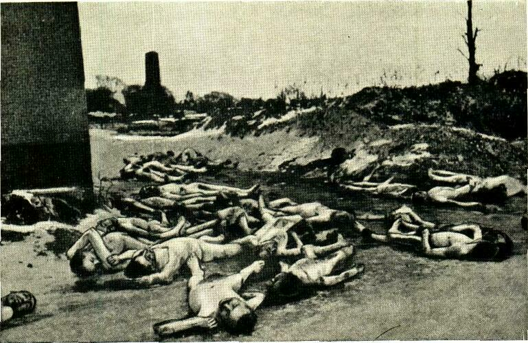 Jewish victims executed by Nazis at the Jewish cemetery in Lviv, west Ukraine. German photo found at former headquarters of Gestapo in Lviv after the Soviet liberation of the city in July 1944. From the documents of the Extraordinary Soviet Commission researching the Nazi crimes.